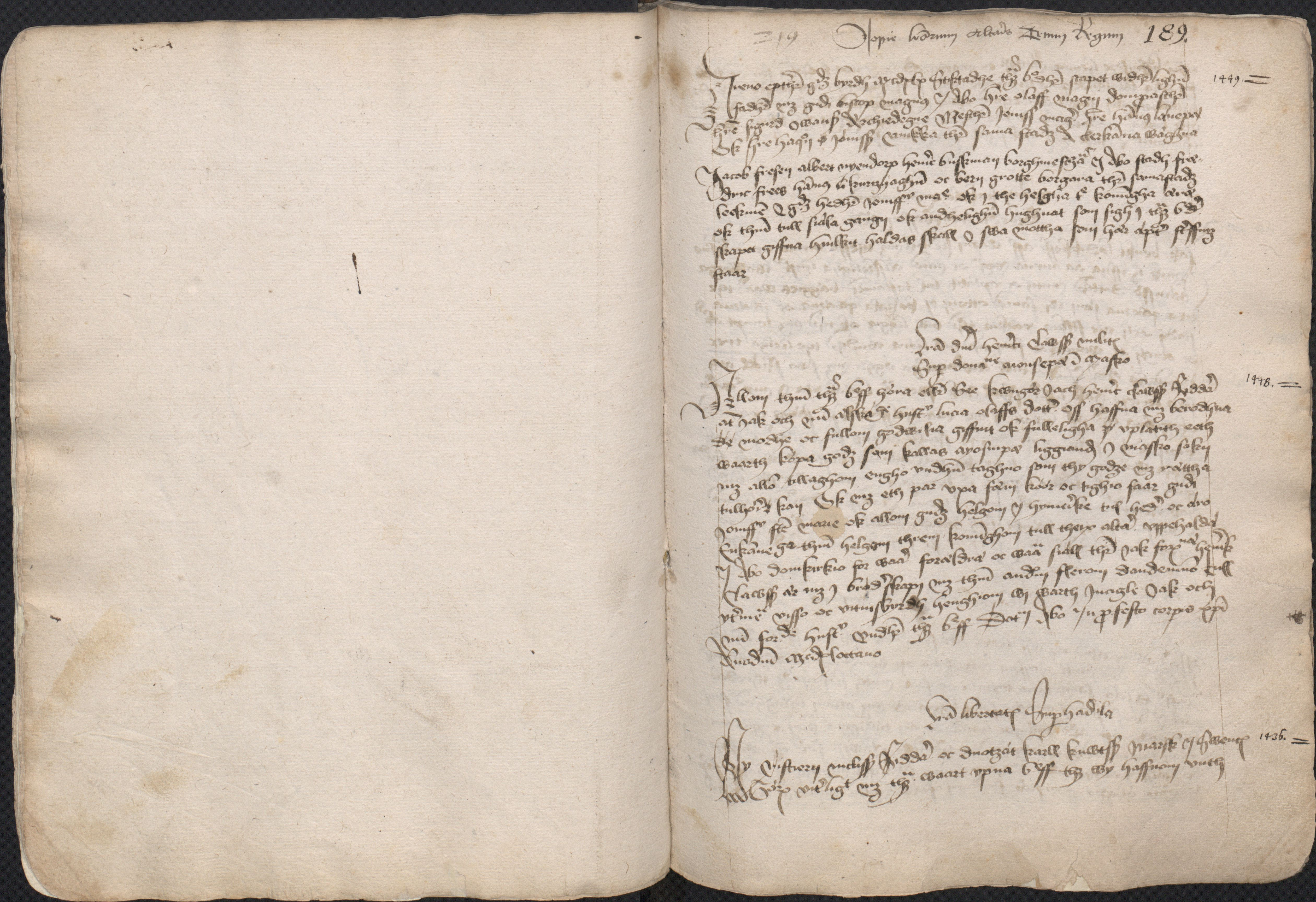 Stockholm, Riksarkivet, Codices A, 10, f. 189, Registrum ecclesiae Aboensis, SE/RA/0201/A 10.